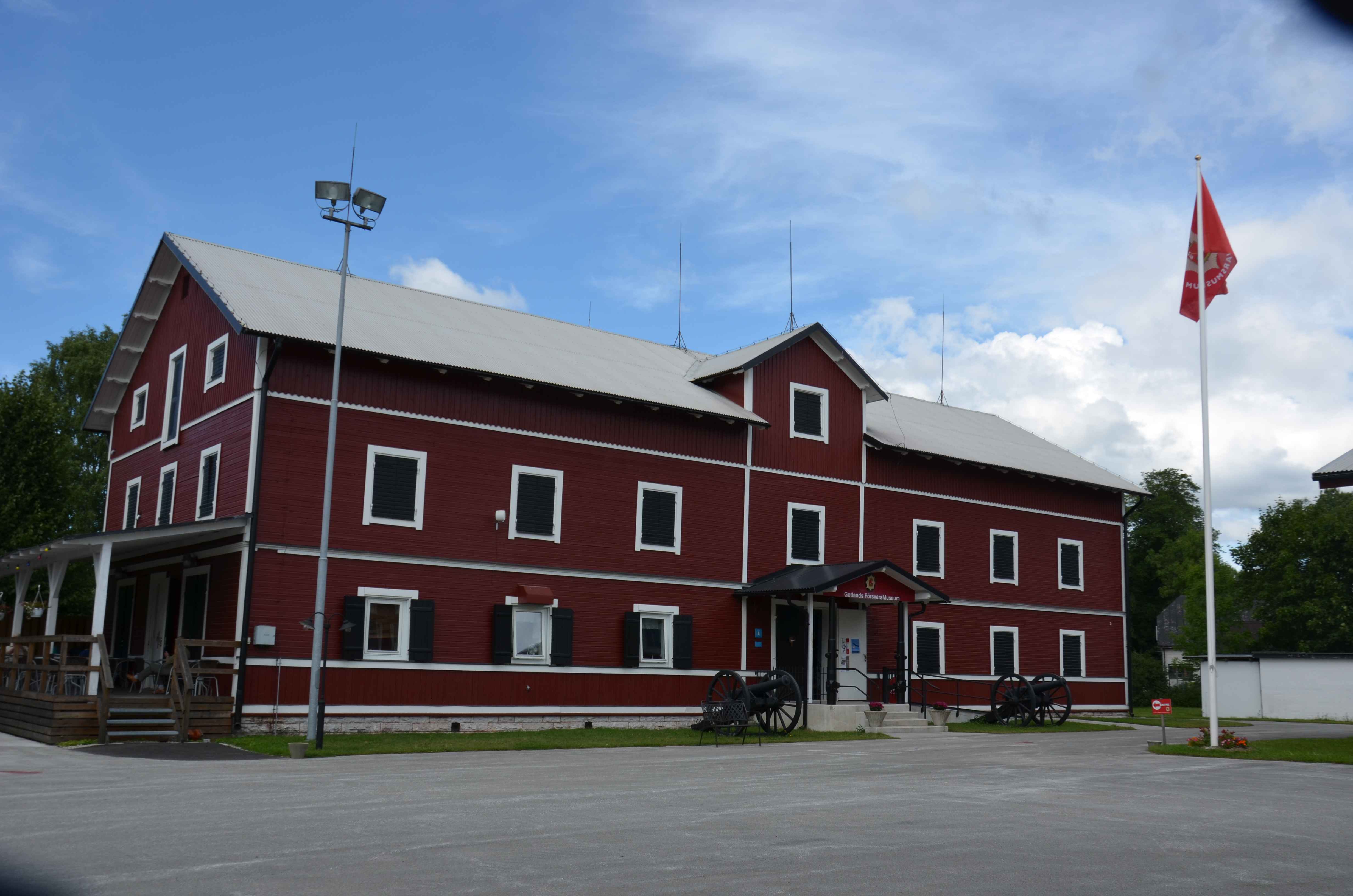 Gotlands försvarsmuseum i Tingstäde